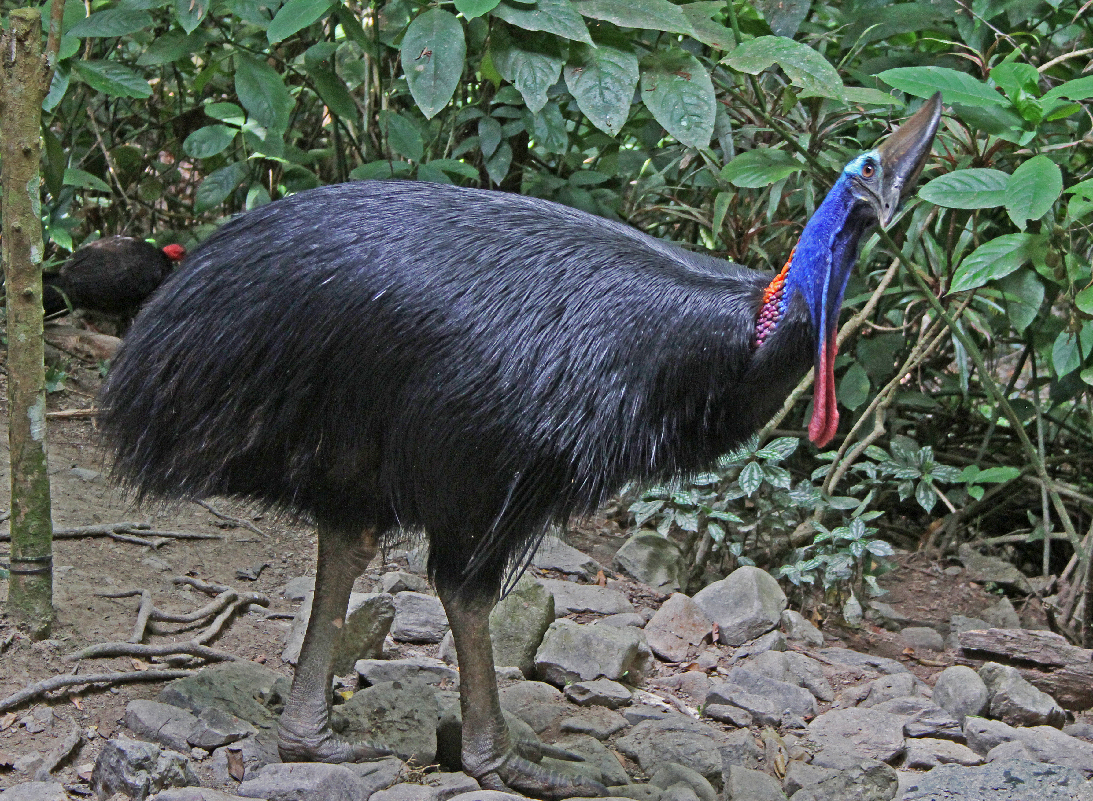 photo of Southern Cassowary